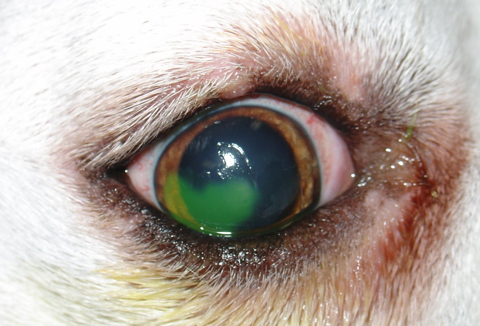 Refractory corneal ulcer in a Boxer. The green area is the ulcer prior to debridement stained with fluorescein. The picture was taken following debridement, and the demarcation between the ulcer and normal epithelium can be seen above and to the right (the dog's left) of the green stain.